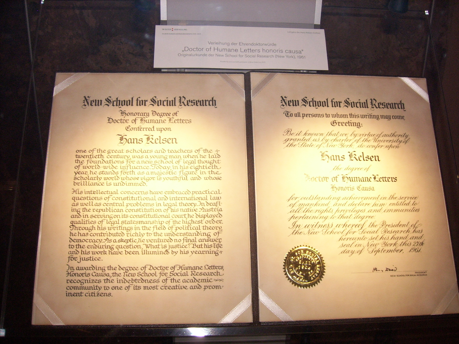 Picture of the Dr. honoris causa diploma of Hans Kelsen, awarded by The New School of Social Research in New York.